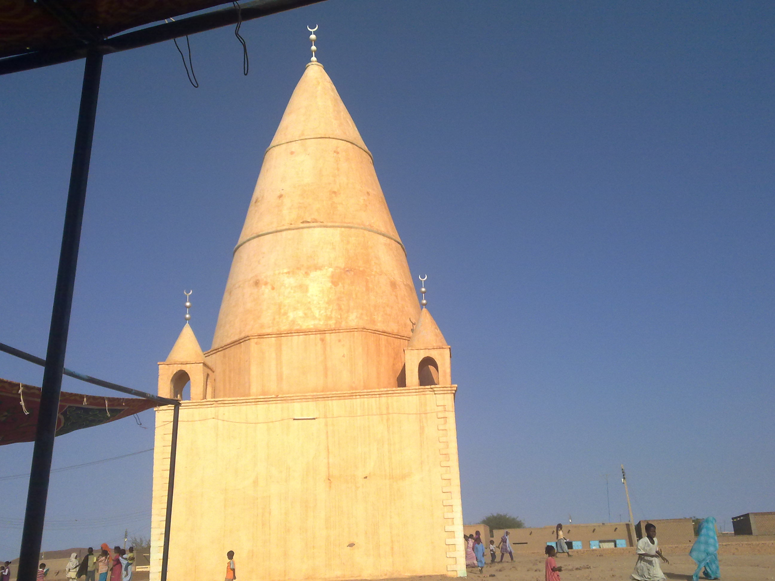 قبة الشيخ عجيب